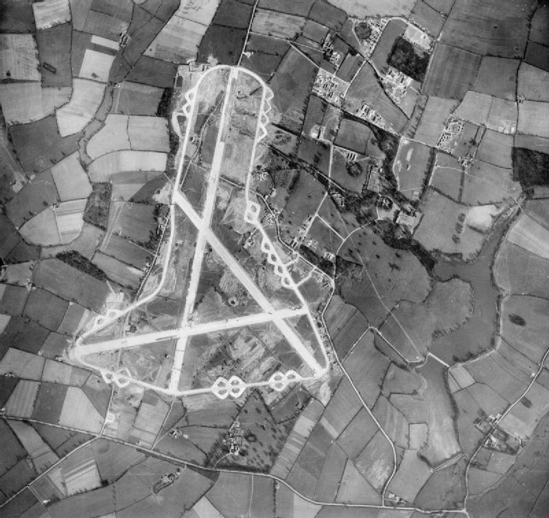 Vertical photographic-reconnaissance aerial of the airfield at Husbands Bosworth, Leicestershire, during its construction.